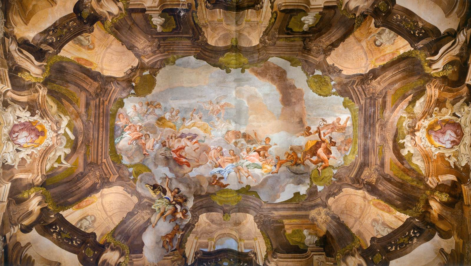 The frescoe in the main room of the Ca' Dolfin (now property of the Ca' Foscari University) depicts the glorification of Venice and the Delfino family.